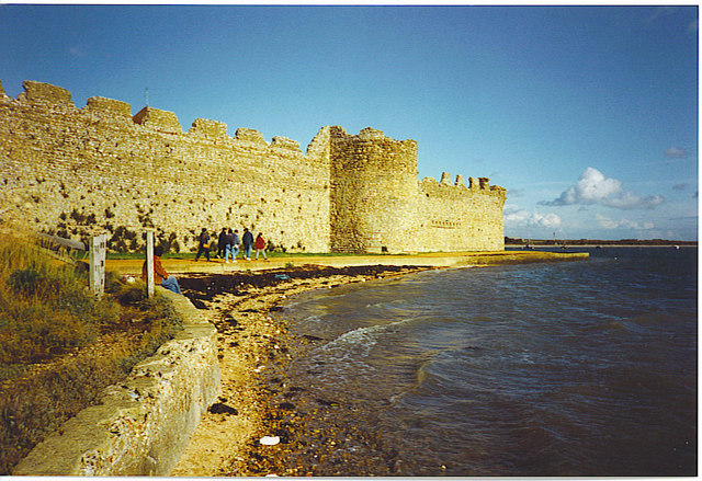 Saxon Shore, Portchester Castle Castle built by Henry II on site of Roman fort. English troops left here en route to Agincourt.